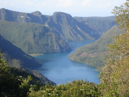 Guatemalan Yolnabaj lake.